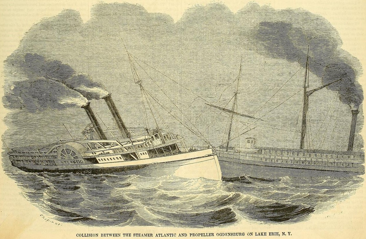 The steamer Atlantic collides with the propeller steamer Ogdensburg on 20 August 1852. The Atlantic sunk with the loss of at least 150 lives.